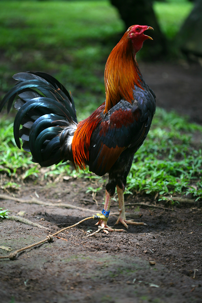 A fighting cock (Gallus gallus domesticus) or rooster from the Philippines.